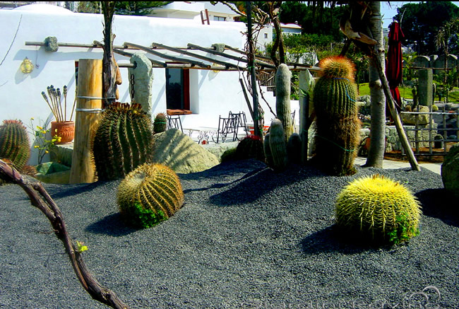 Cave in the botanical garden Giardini Ravino (via Statale Panza 106, Forio d'Ischia).